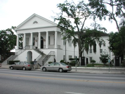 Williamsburg County Courthouse, designed by Robert Mills, Kingstree, South Carolina Image copyleft: Image taken by me, released under GFDL Pollinator 03:58, Jun 18, 2004 (UTC)